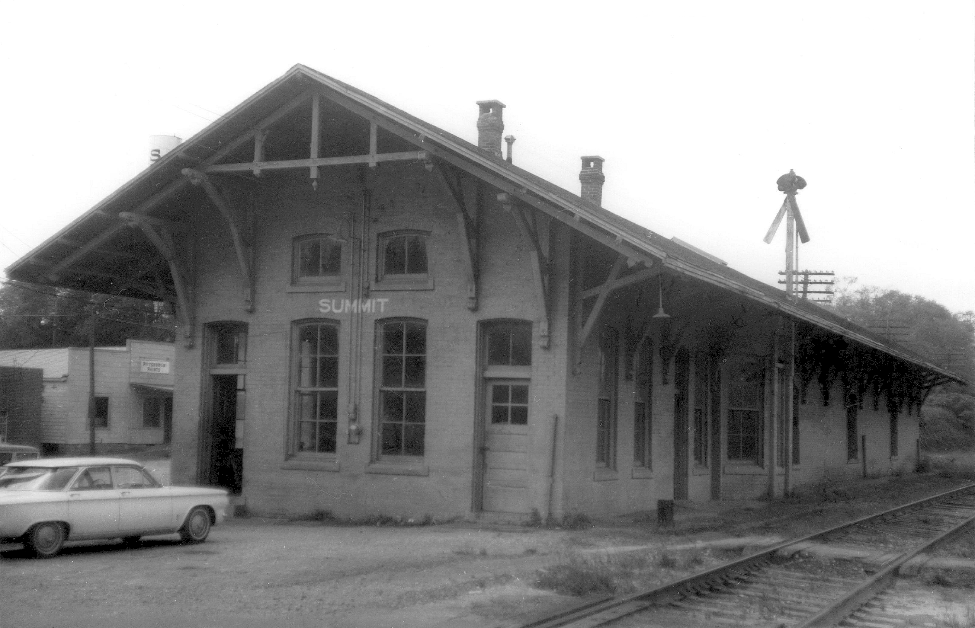 Collection: Railroad Depot Postcard Collection Call number: PI/1987.0009 System ID: 77439 IC Depot, Summit, Miss. 1966. Please see our profile page for information on ordering. Scanned as tiff in 2008/11/13 by MDAH. Credit: Courtesy of the Mississippi Department of Archives and History